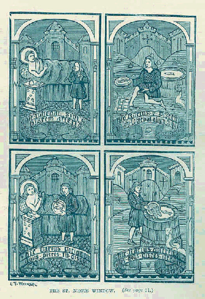 St. Neots Window Subject: St. Neot's (Huntingdonshire, England), St. Neot's (Cornwall, England), Glass painting and staining Geographic Subject: England--St Neot Tag: Expositions